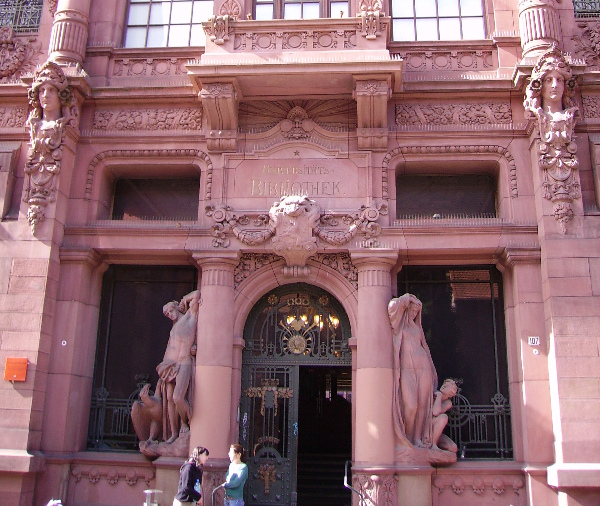 university of Heidelberg, Germany